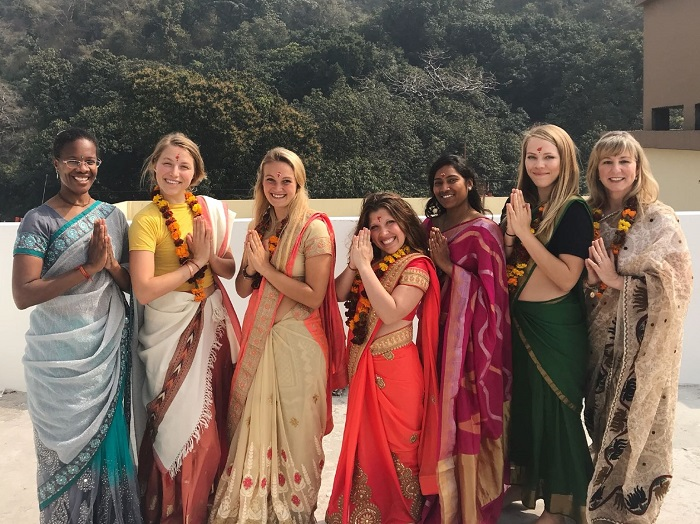 200 hour hatha and ashtanga yoga teacher training in Rishikesh